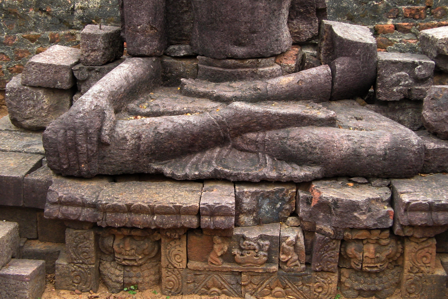 Ruins of Buddhist temples and images